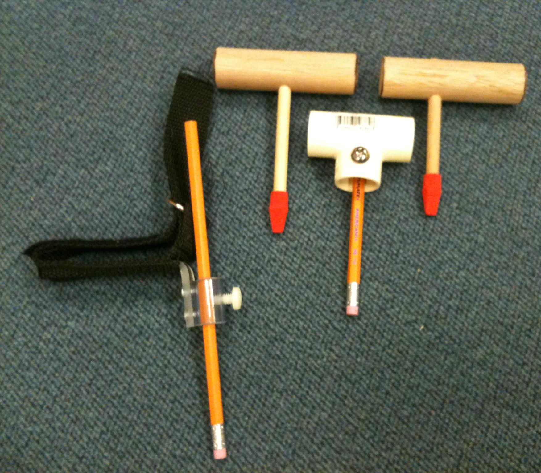 Hand handed typing wands, made as a learning task on the Disability and Human Development study program, UIC, USA.